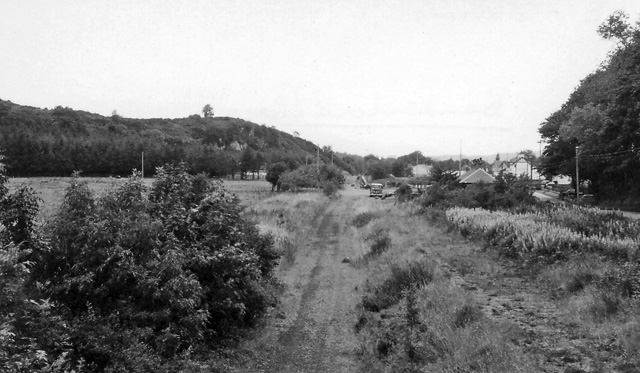 Site of Benderloch Station, near to Benderloch, Argyll And Bute, Great Britain. View northward, towards Ballachulish; Connel Ferry - Ballachulish branch, which was closed 28/3/66 (goods 3/5/66).